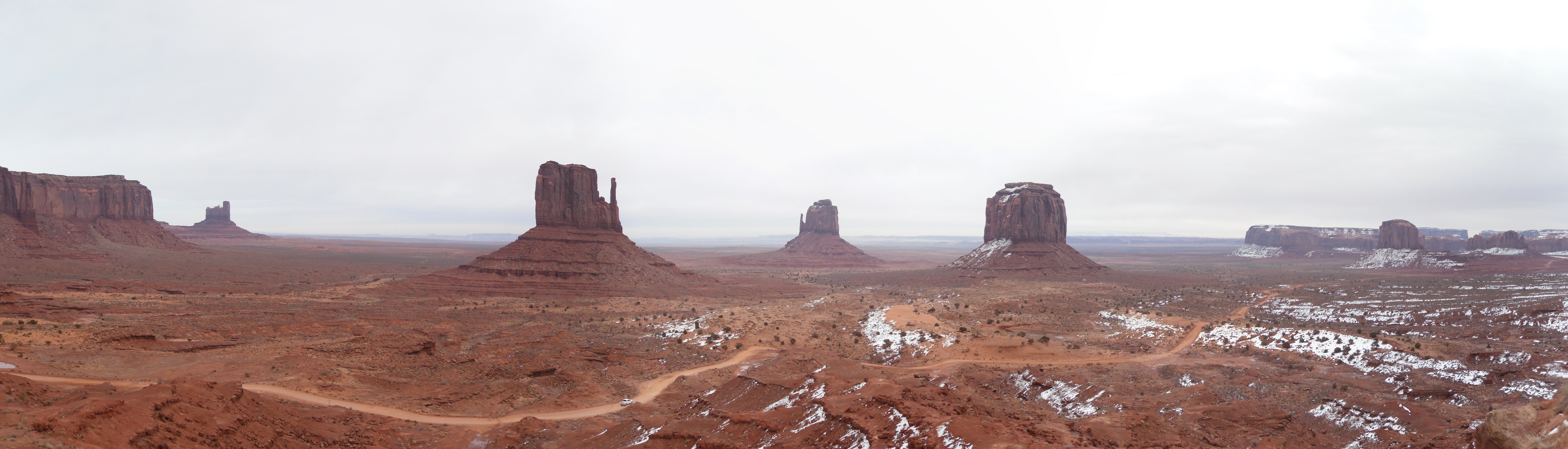 Monument Valley, Utah. View from the visitor's center in winter.